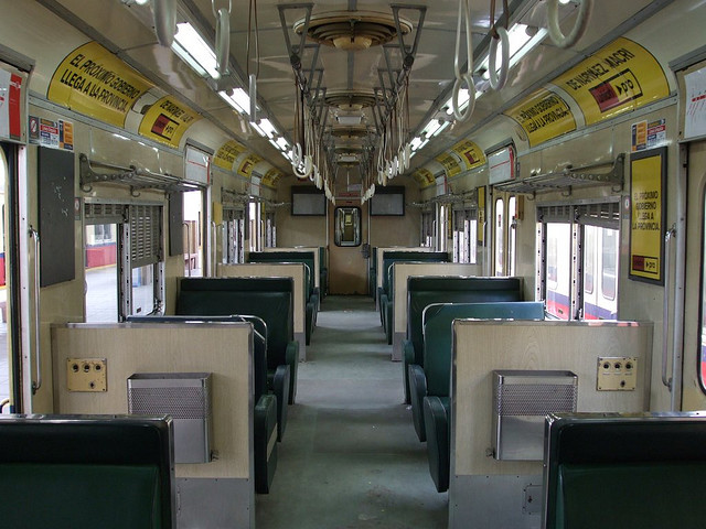 Toshiba rolling stock inetrior; Folding leatherette seats, Formica interior, luggage rack, windows that open, metal shutters, fans and grab handles. (Buenos Aires)